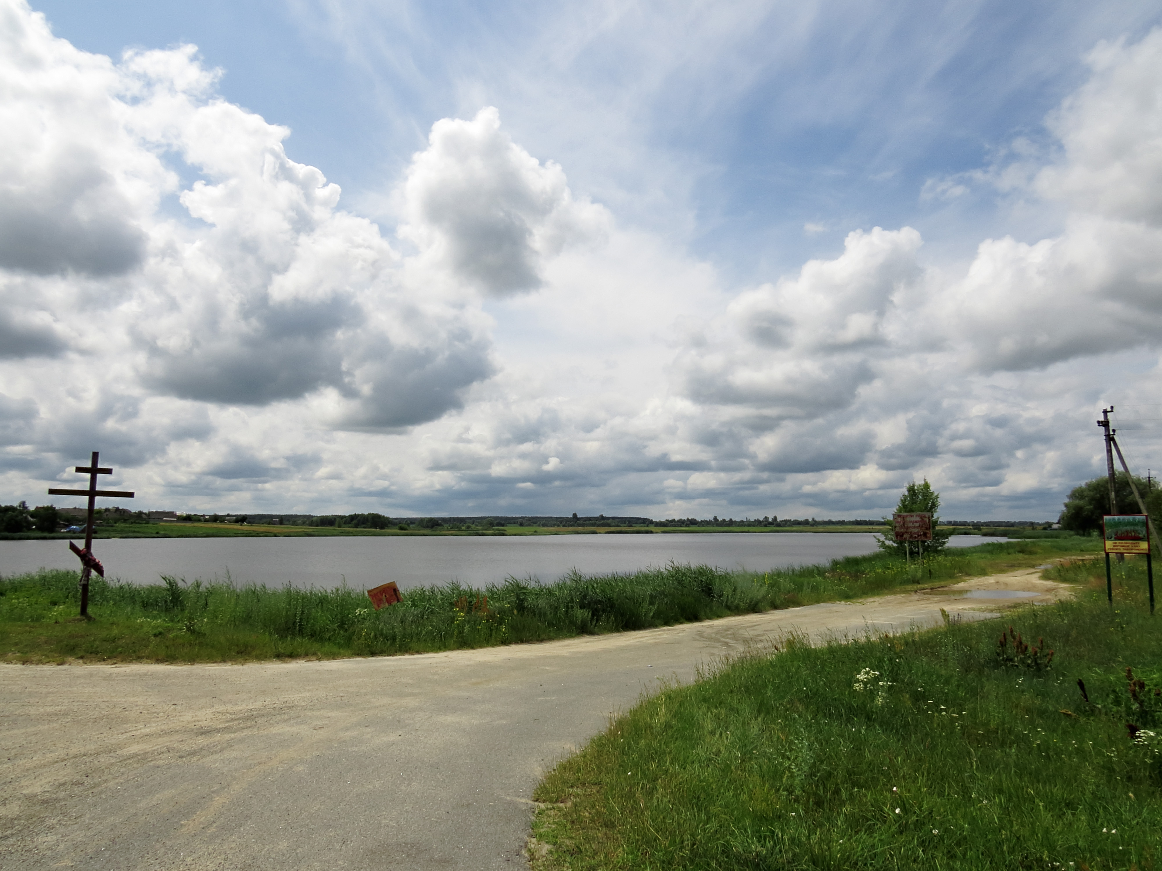 Pond on Vablya river near Vablya village. Borodianka raion, Kiev oblast, Ukraine